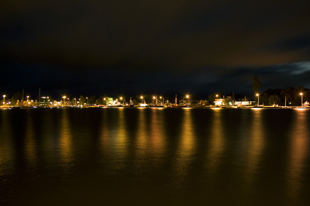 Port - Jastarnia, Poland